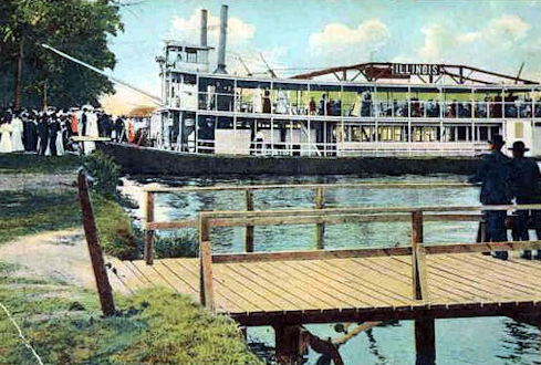 Color image of paddle wheel steamboat "Illinois" at Rockford, Illinois Harlem Park amusement park 1910.